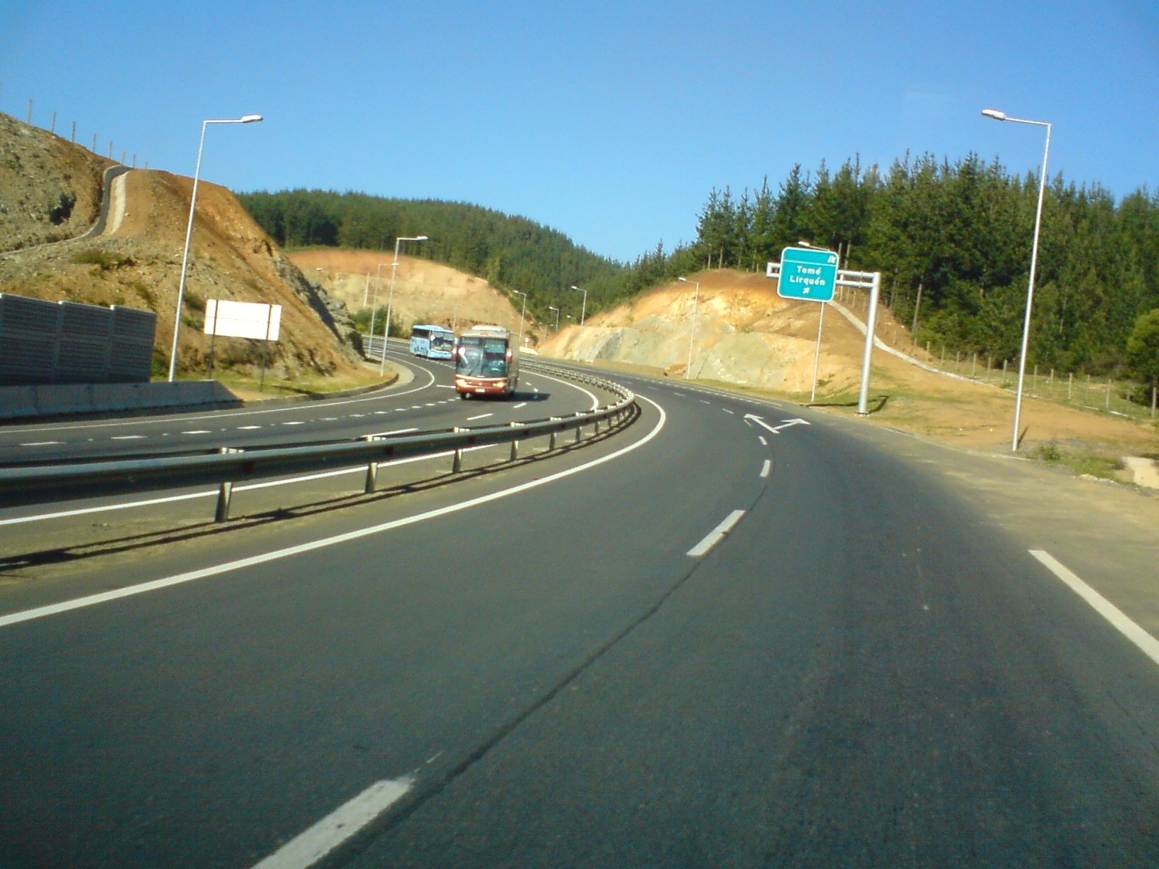 Entrance to by-pass of Penco chile 2008